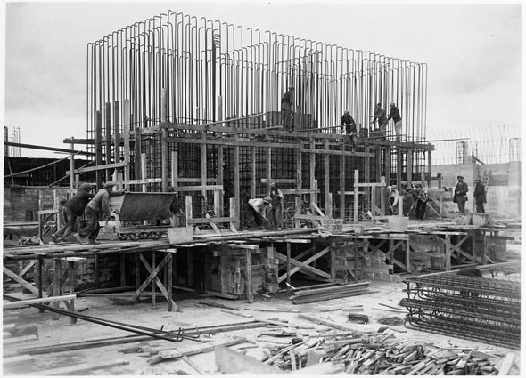 Construction of Vimy Memorial substructure.